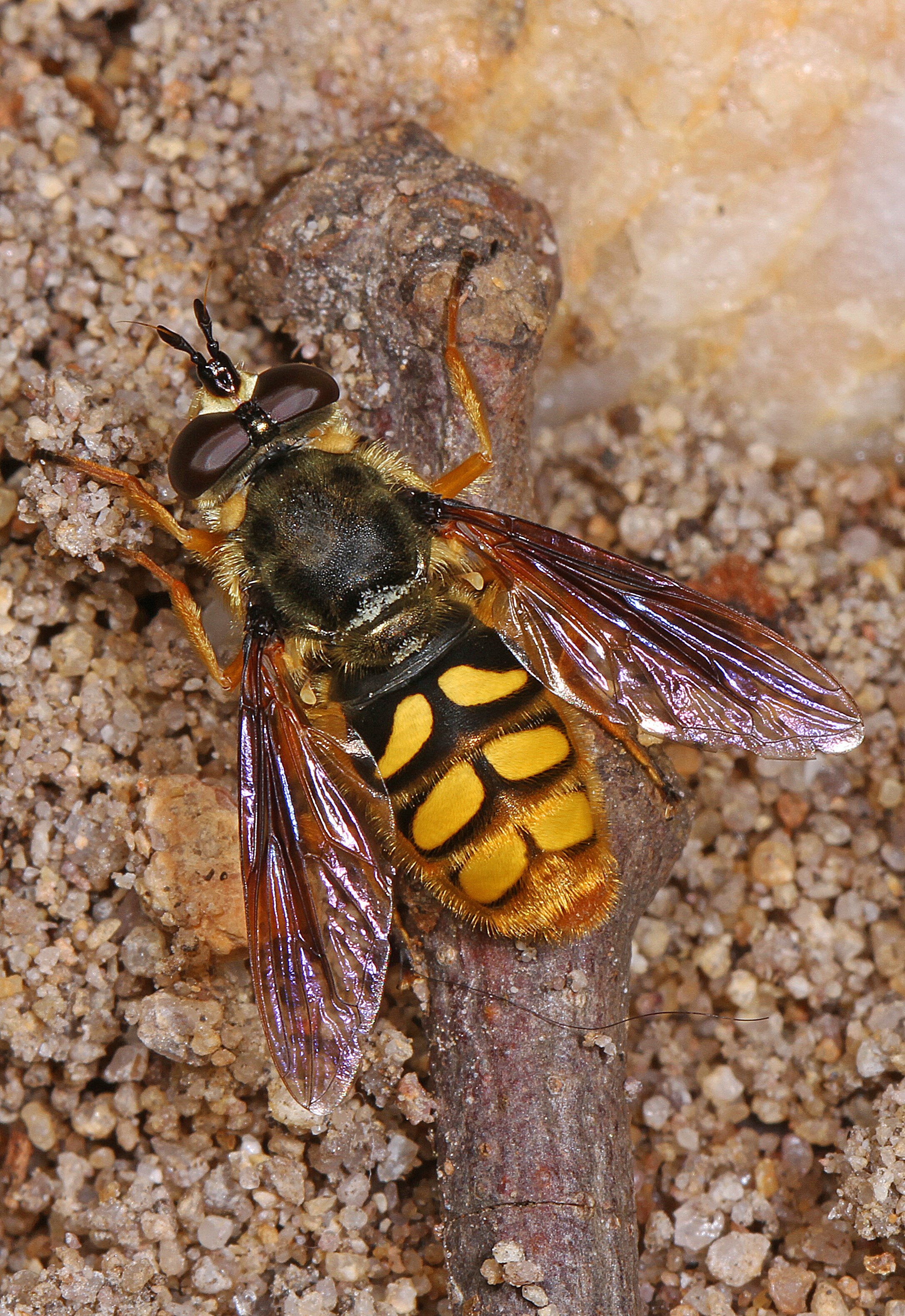 Syrphid - Somula decora, Sugarloaf Mountain, Dickerson, Maryland. Montgomery County, Md. 5/31/2014